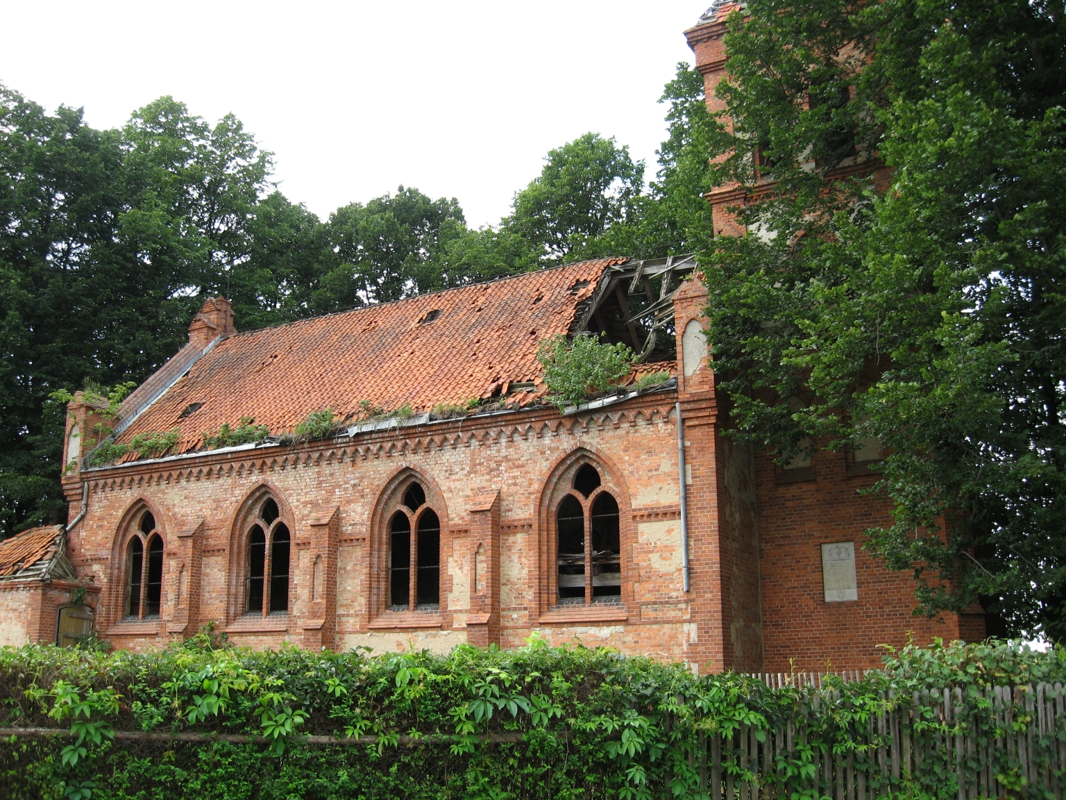 Church in Białuty